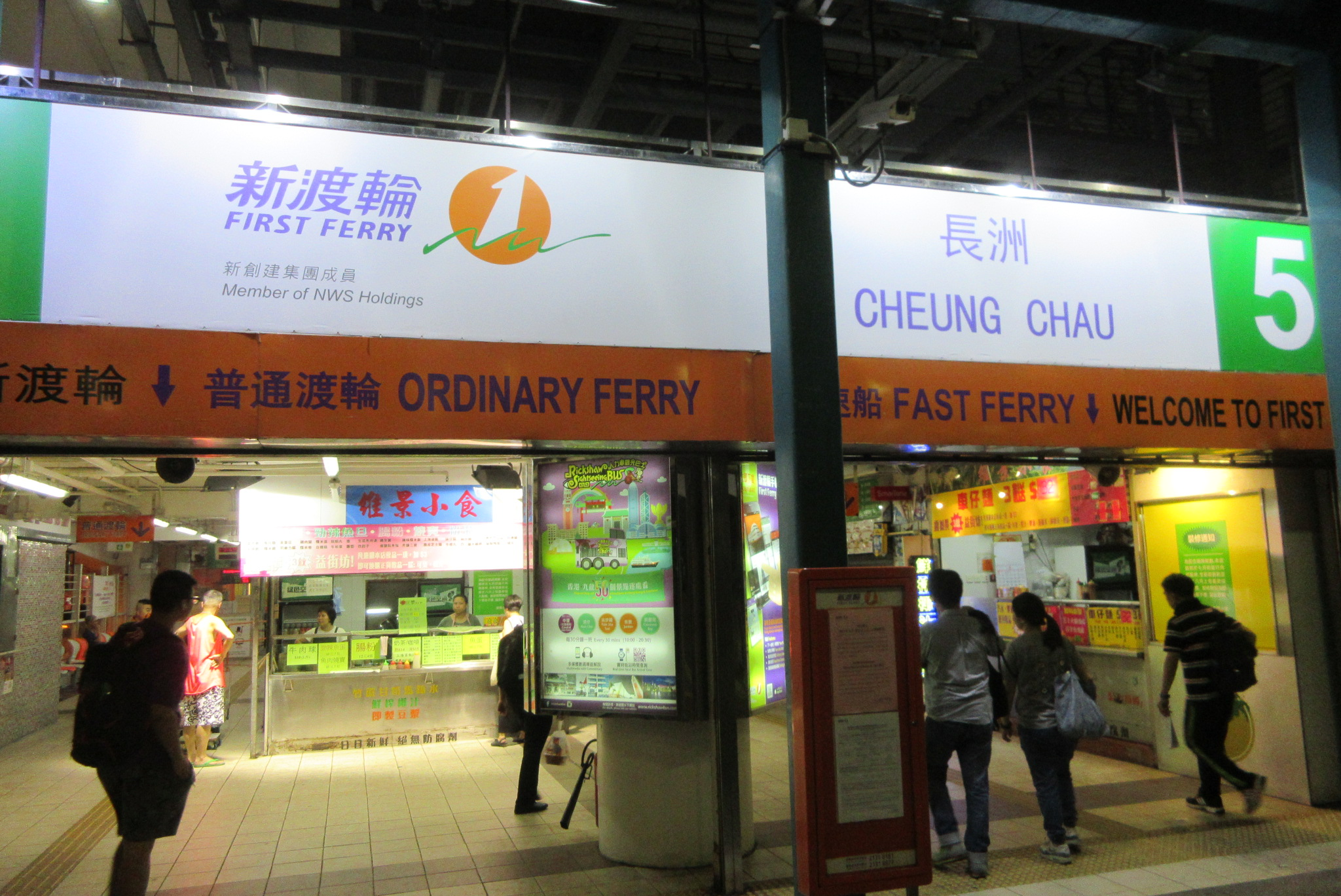 中環碼頭, night in Central Ferry Piers in June 2017